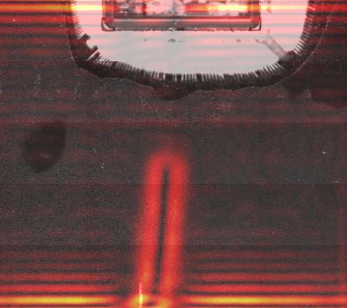 Silver Migration between pins